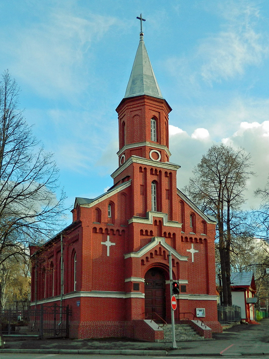 Lutheran church in Perm, Russia